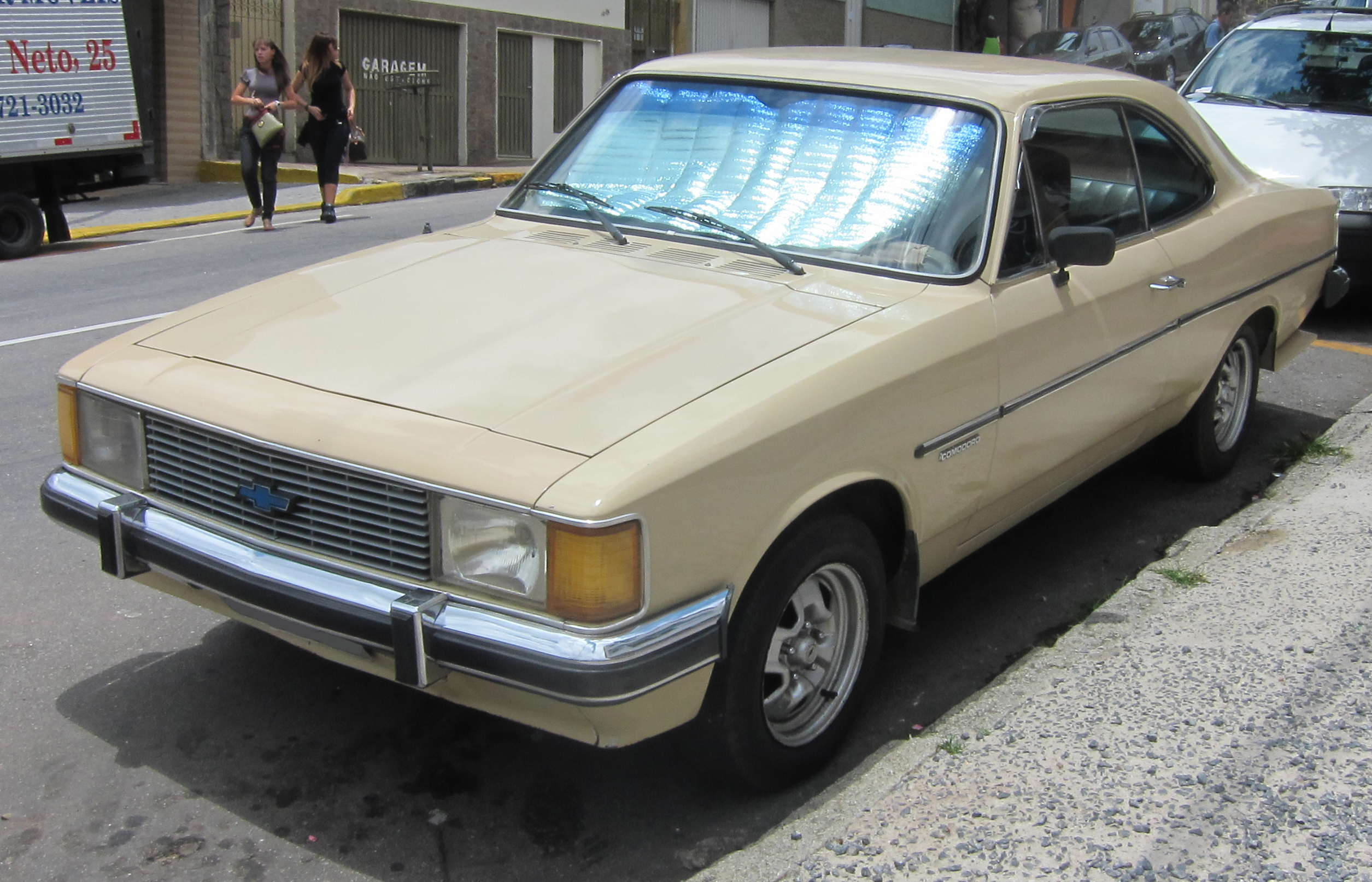 Fairly late Chevrolet Comodoro coupé in Poços de Caldas, Brazil